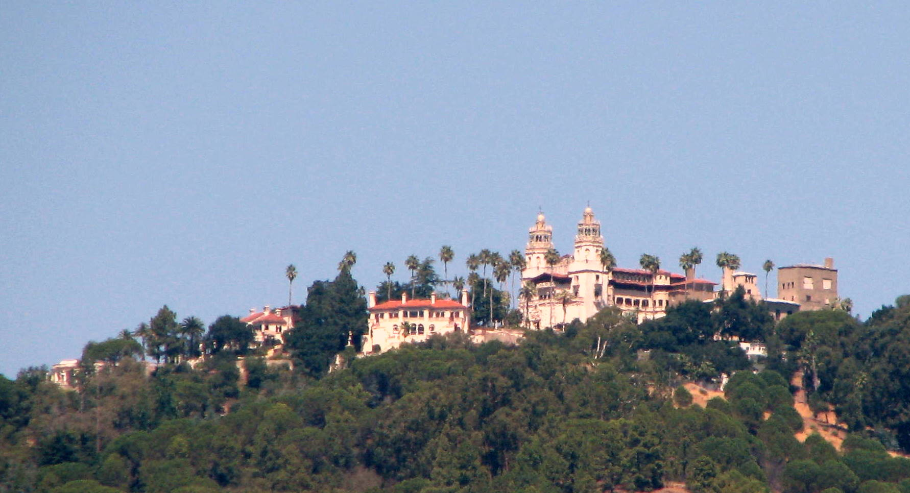 Hearst Castle, San Simeon, California, USA